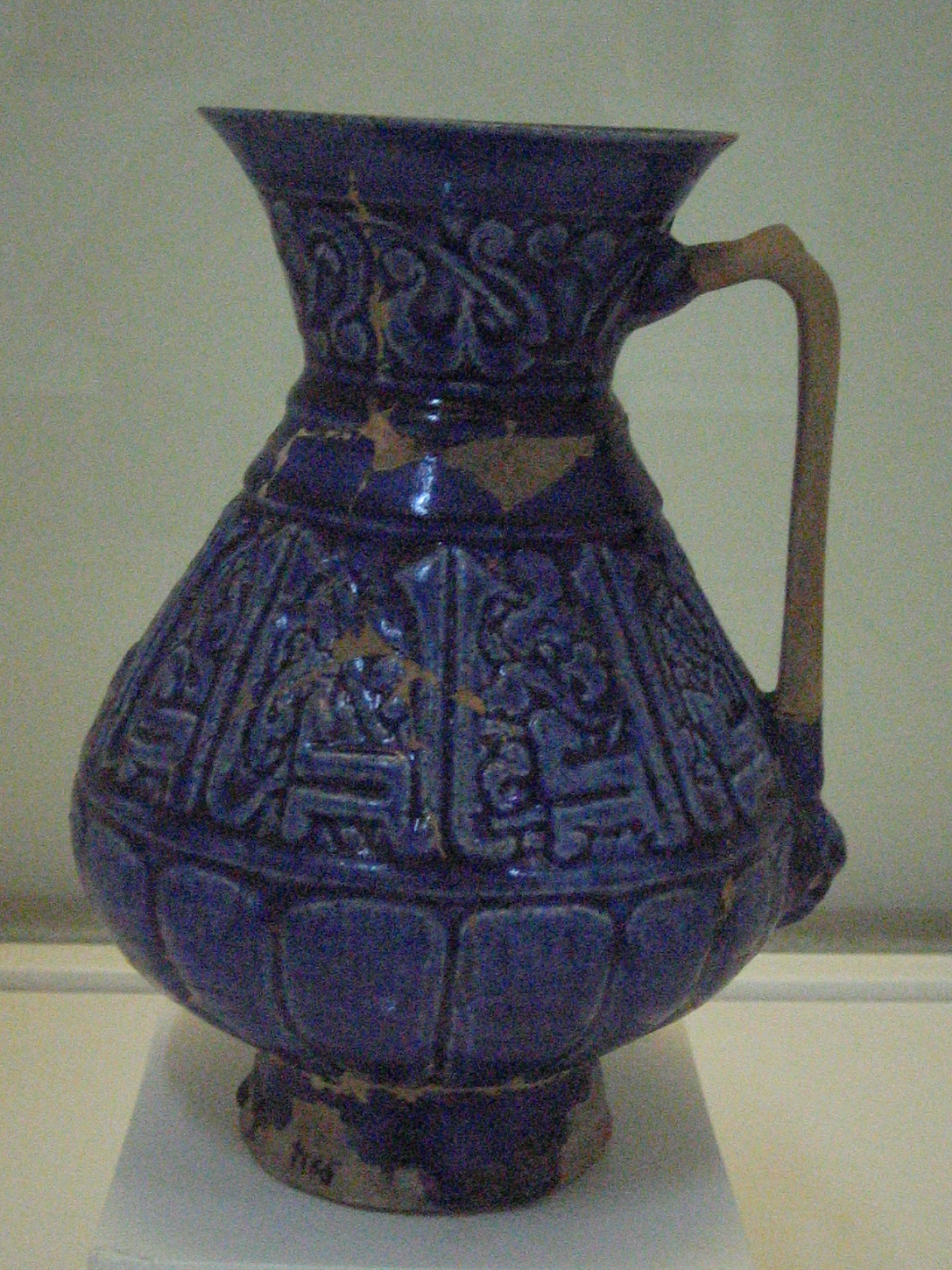 Drinking vessel, moulded relief & monochrome, Kufic (aldoleh), Sâveh XIII-XIVth century. National Iran Museum, Tehran.